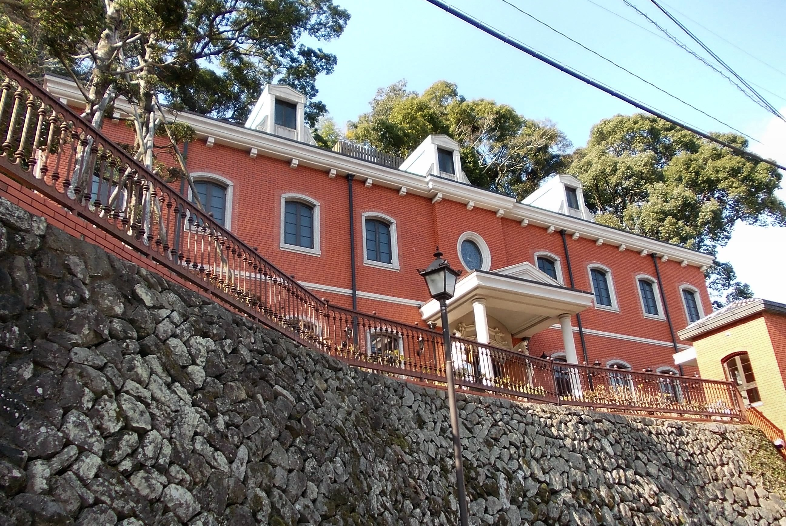 Siebold Memorial Museum, Nagasaki, Japan